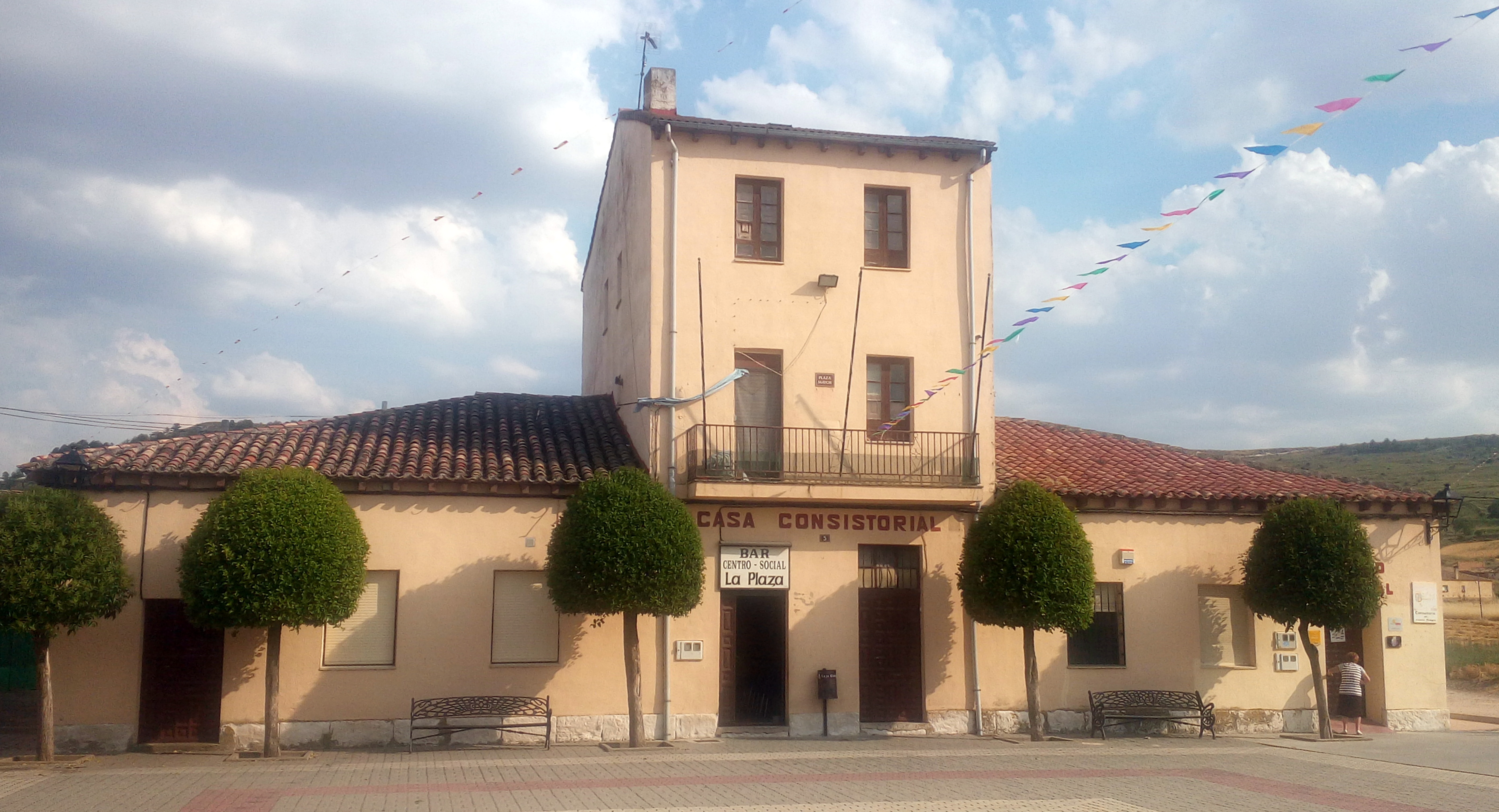 Town hall of Valdezate, Burgos, Spain